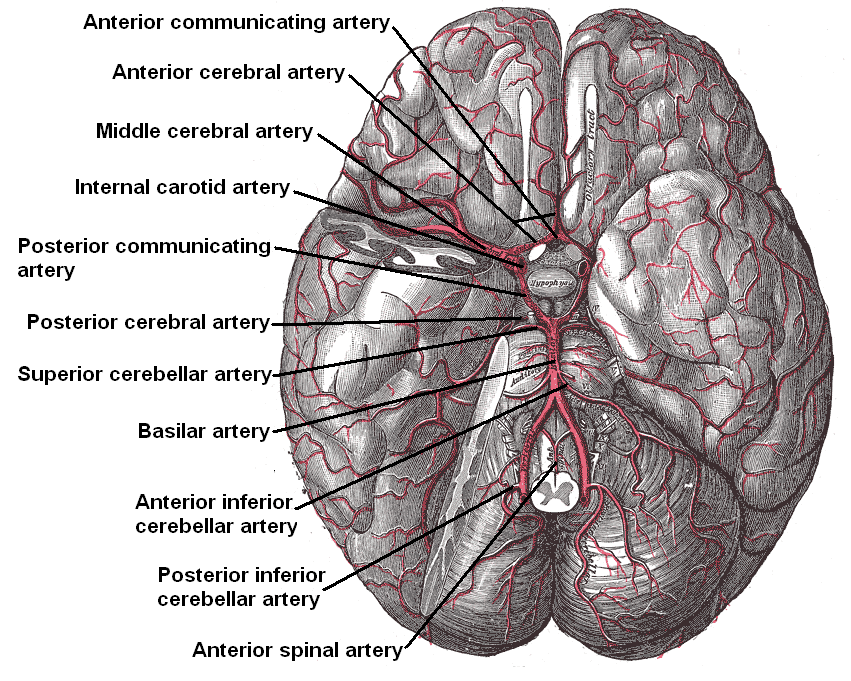 The brain and arteries at base of the brain. Circle of Willis is formed near center. The temporal pole of the cerebrum and a portion of the cerebellar hemisphere have been removed on the right side. Inferior aspect (viewed from below).